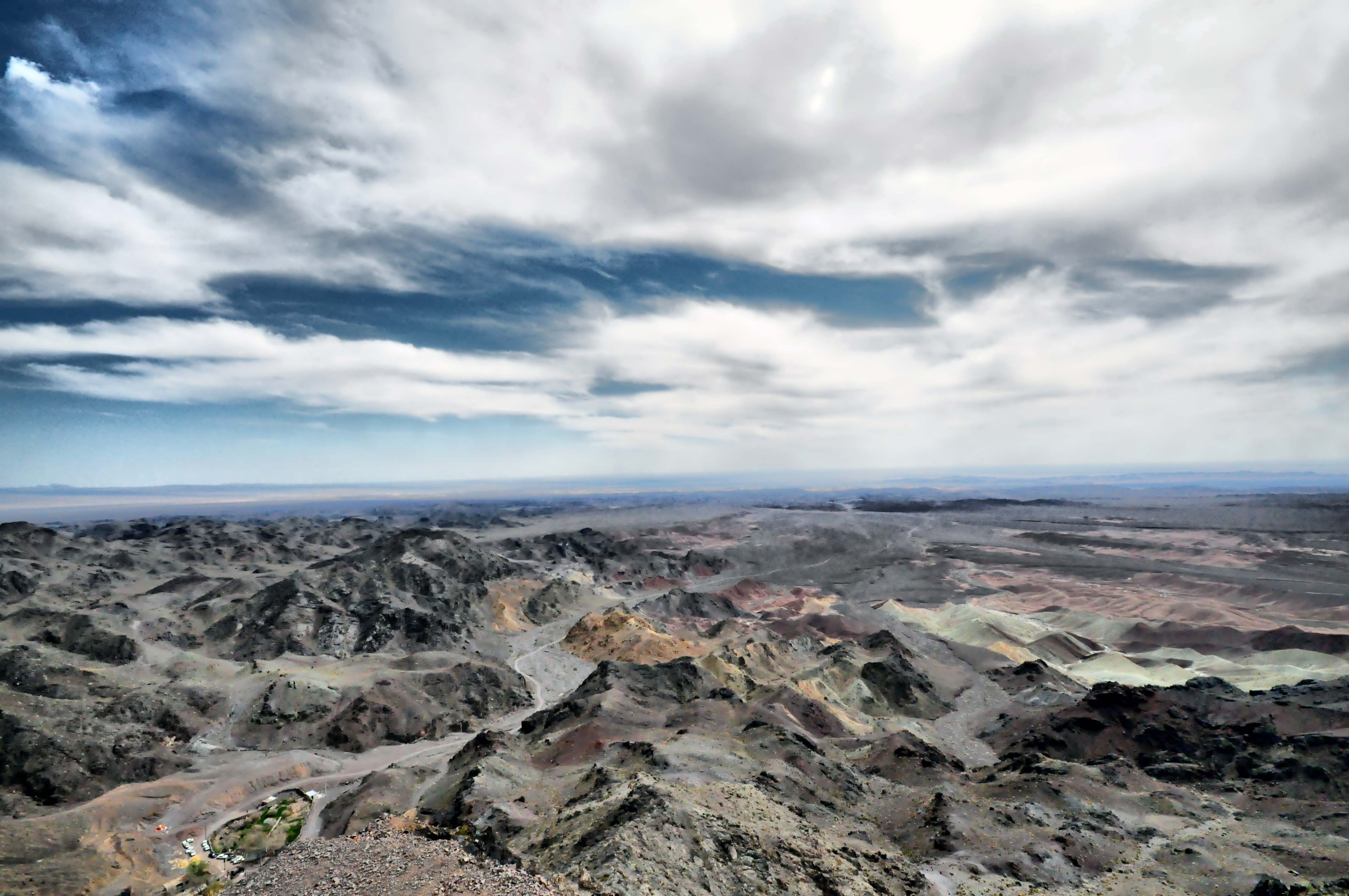 Torud–Chah Shirin Mountains from Pir Mardan imamzadeh near Sar Takht, Semnan Province, Iran